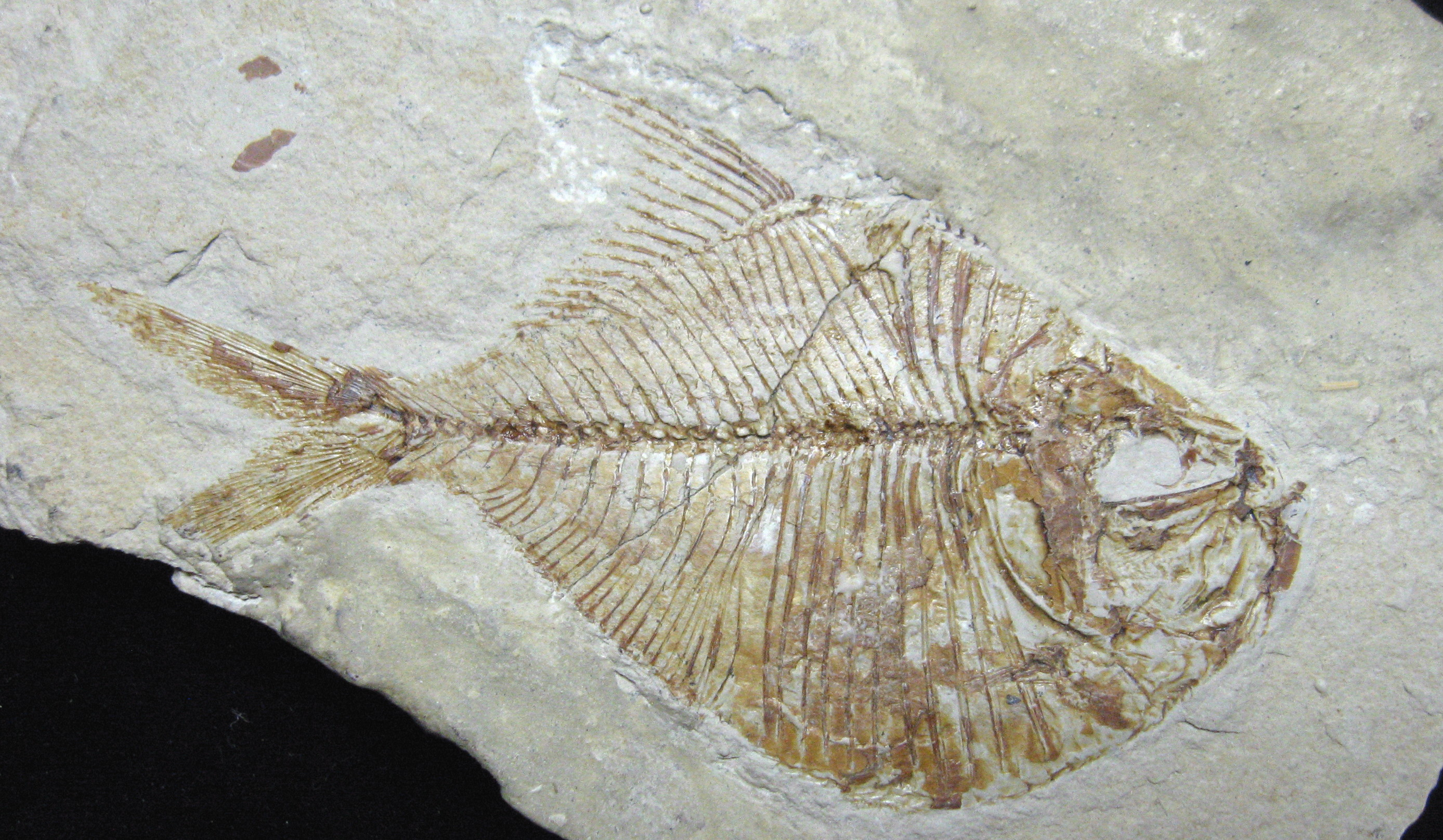 A fossil Aipichthys velifer — from the Mount Lebanon Range, in Lebanon. Collection of the Stonerose Interpretive Center Collection, in Republic, Washington state, U.S.